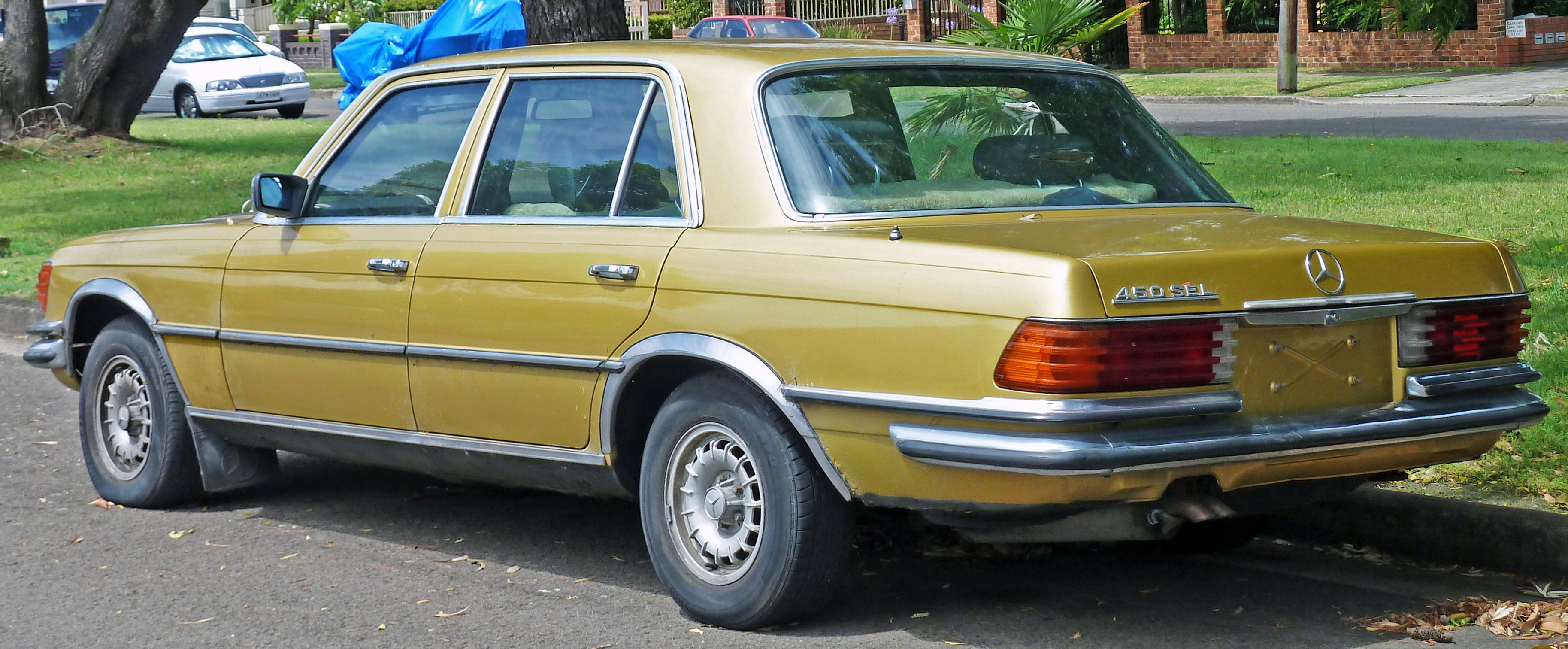 1973–1980 Mercedes-Benz 450 SEL (V 116) sedan. Photographed in Ramsgate Beach, New South Wales, Australia.